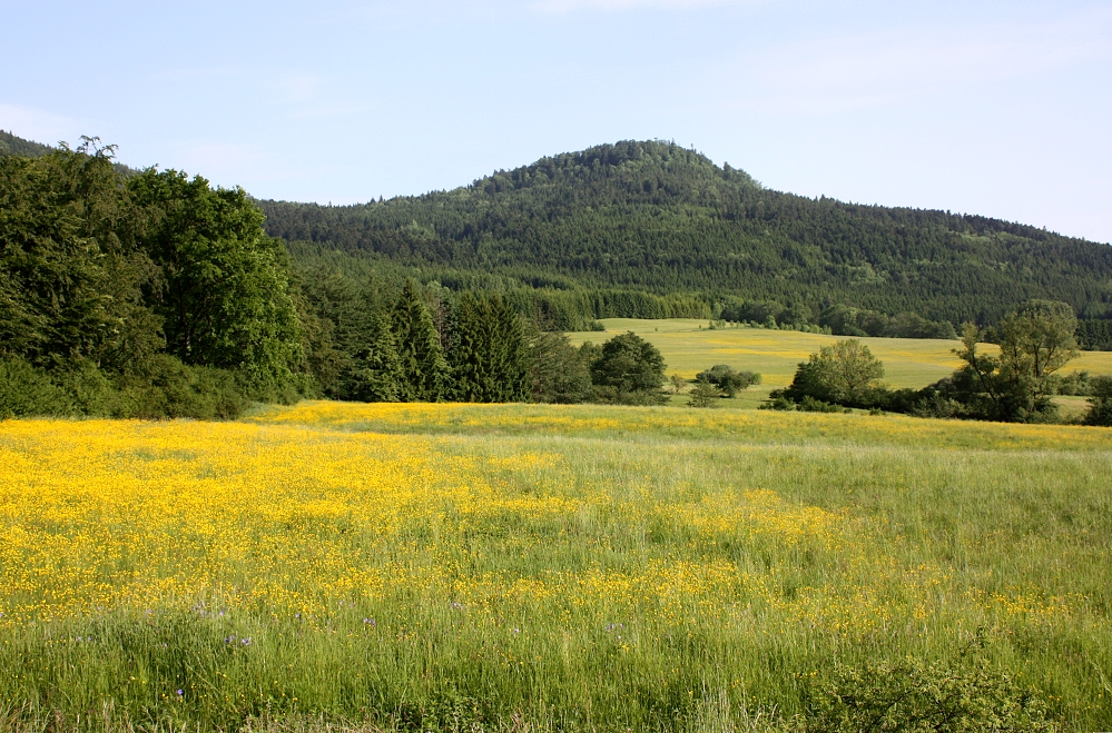 Lemberg (1015 m); seen from the Schörzinger Straße (Schörzingen - Wilflingen)